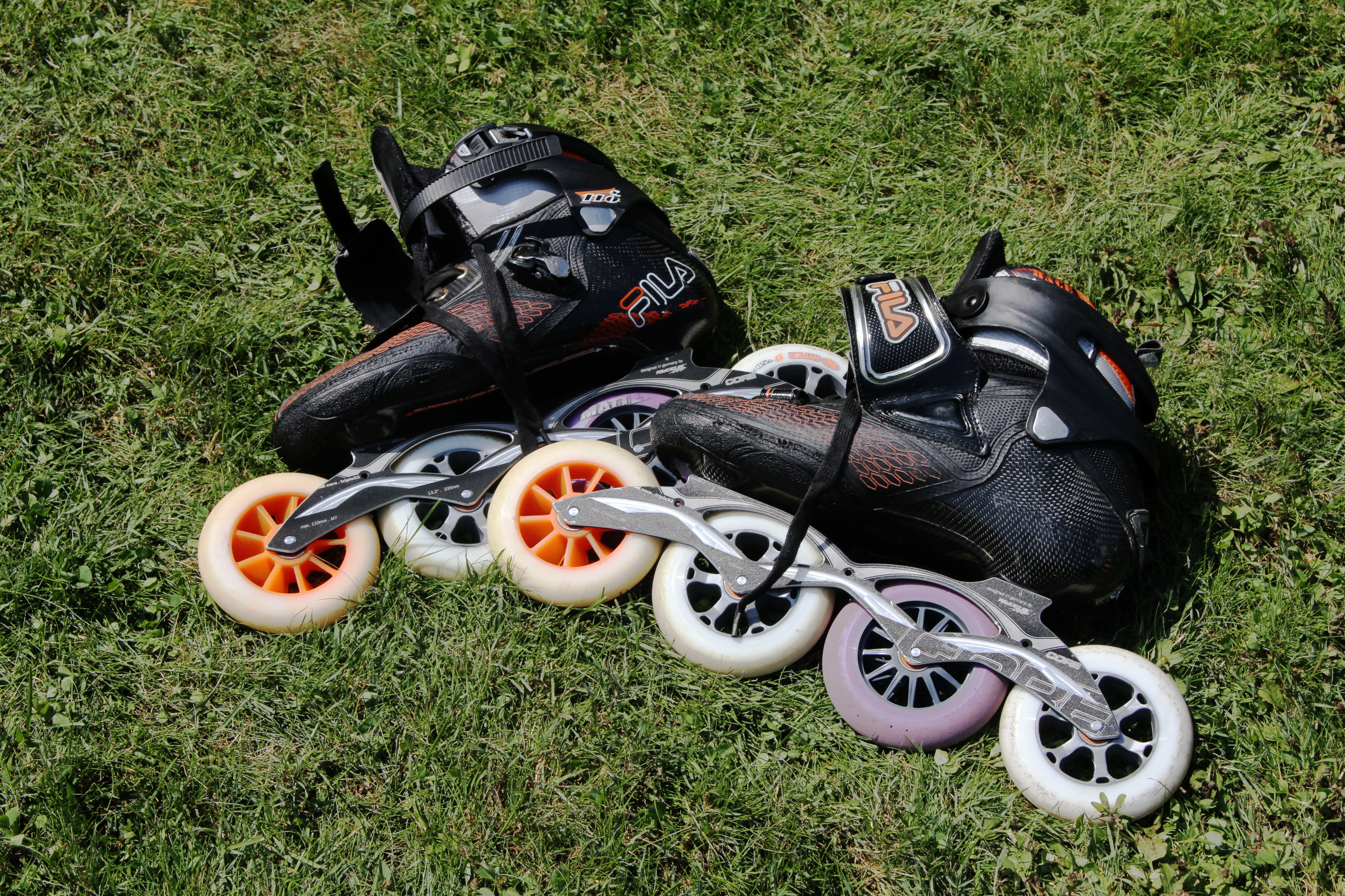 Inline-Alpin Skates - higher shaft than speed skates, wheel two and four with max hardness, third wheel slightly bouncy - Internationaler Münchner Inline Cup, Westpark, München.